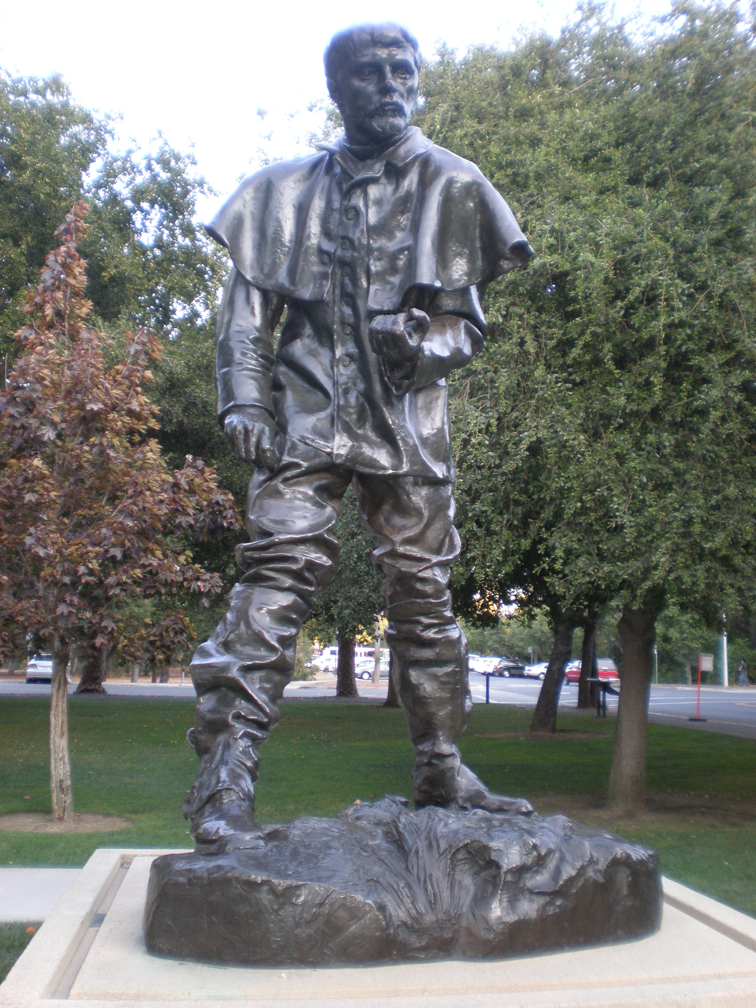 A statue of the French painter Jules Bastien-Lepage.